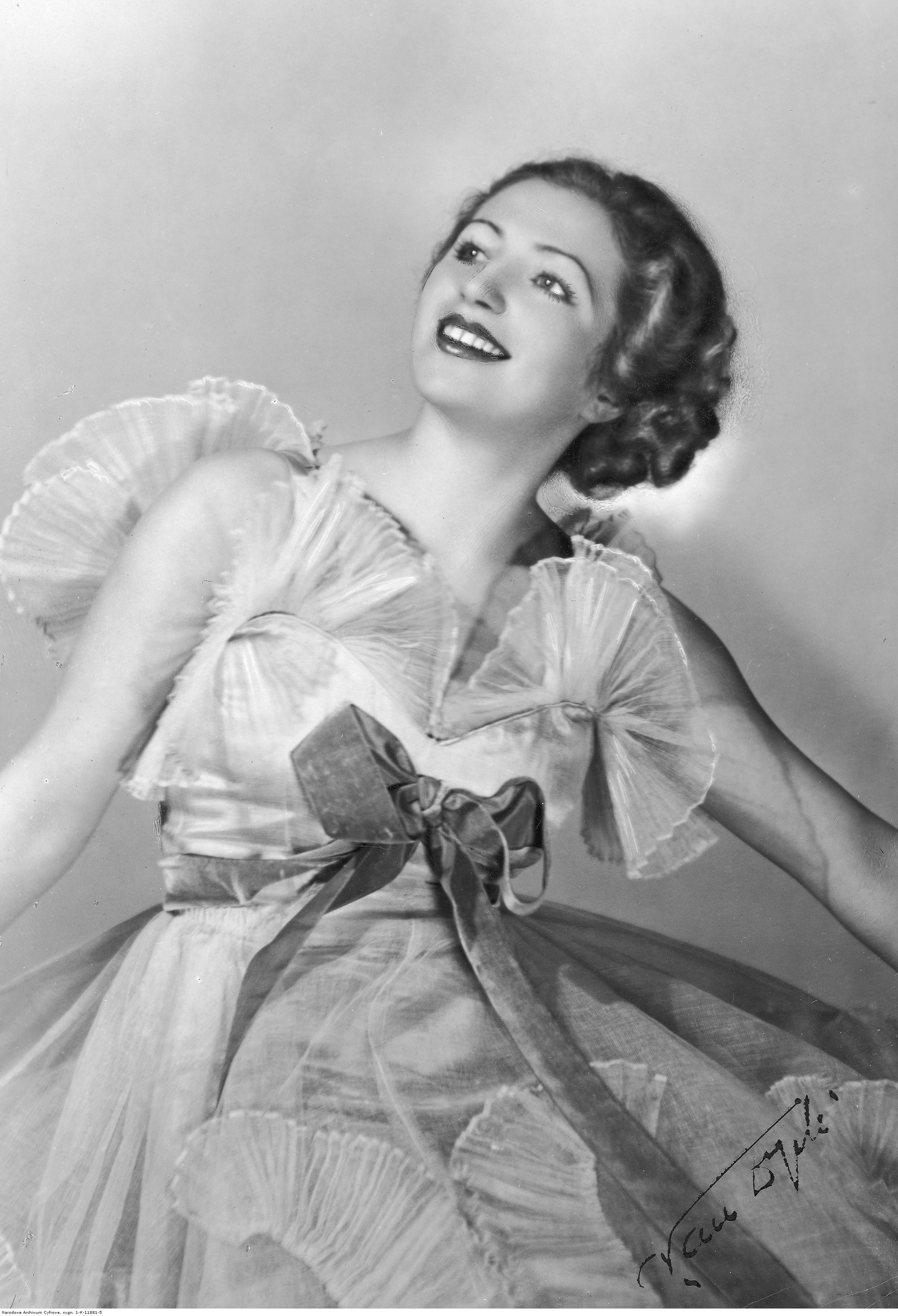 Performing artist Franceska Mann (Franciszka Mannówna), Warsaw, Poland.